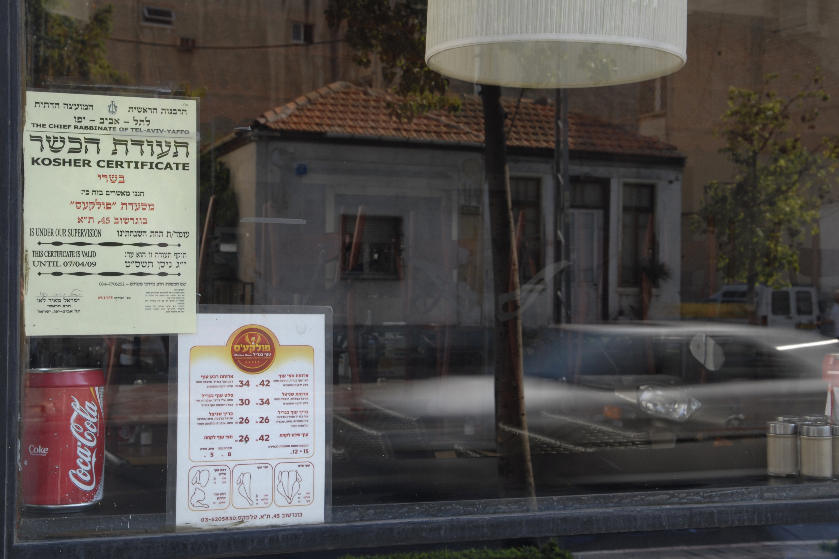 Kosher Certificate in Tel Aviv, 48 Bograshov Street (2008).